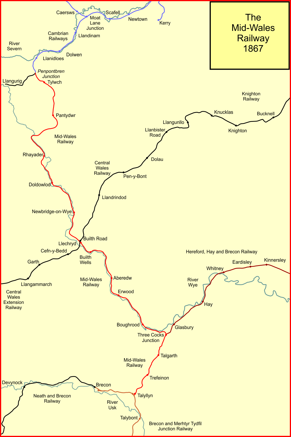 System map of the Mid-Wales Railway in 1867